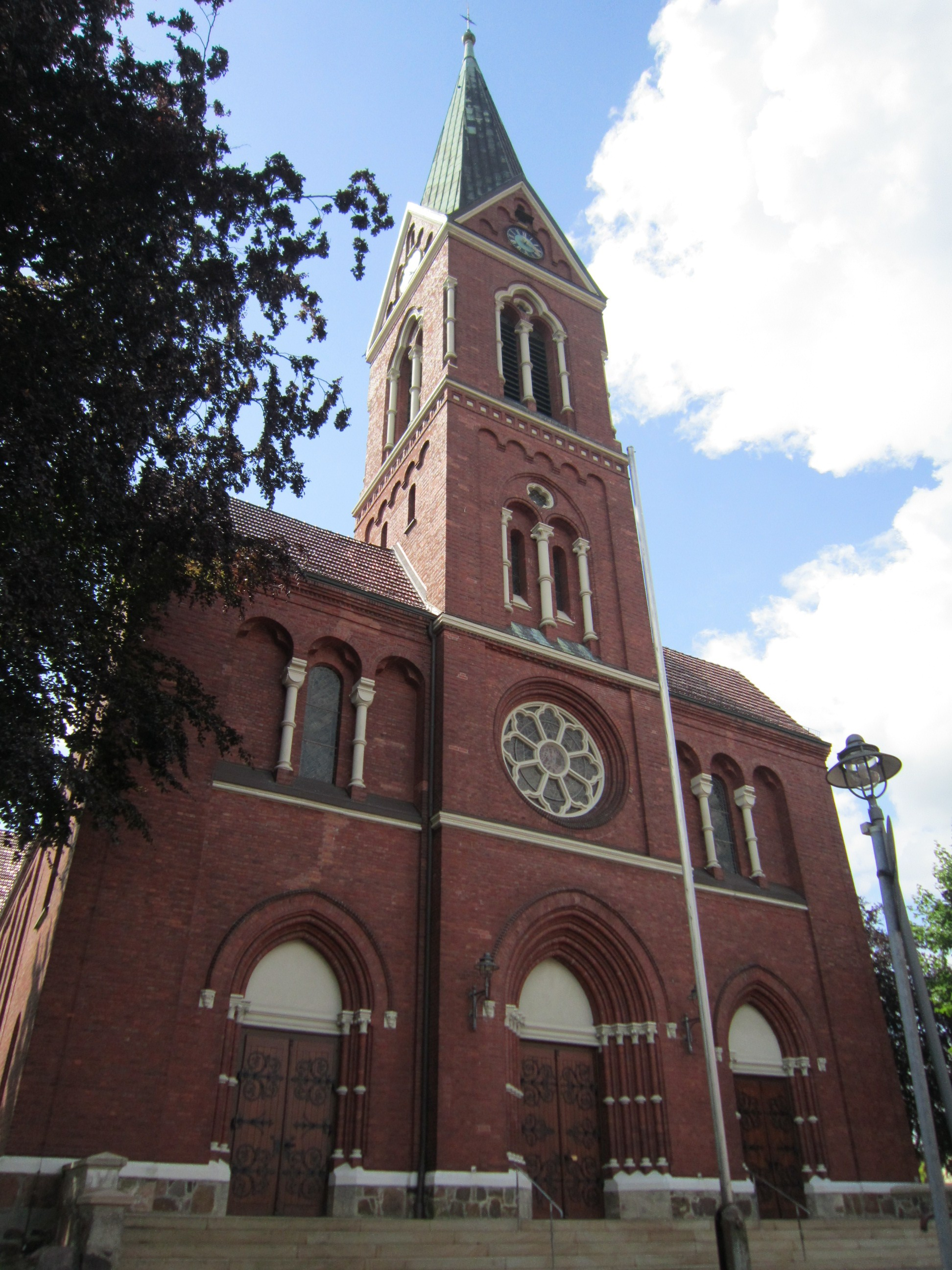 St. Gorgonius Church in Goldenstedt